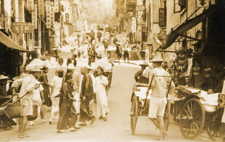 Hong Kong in the 1930s